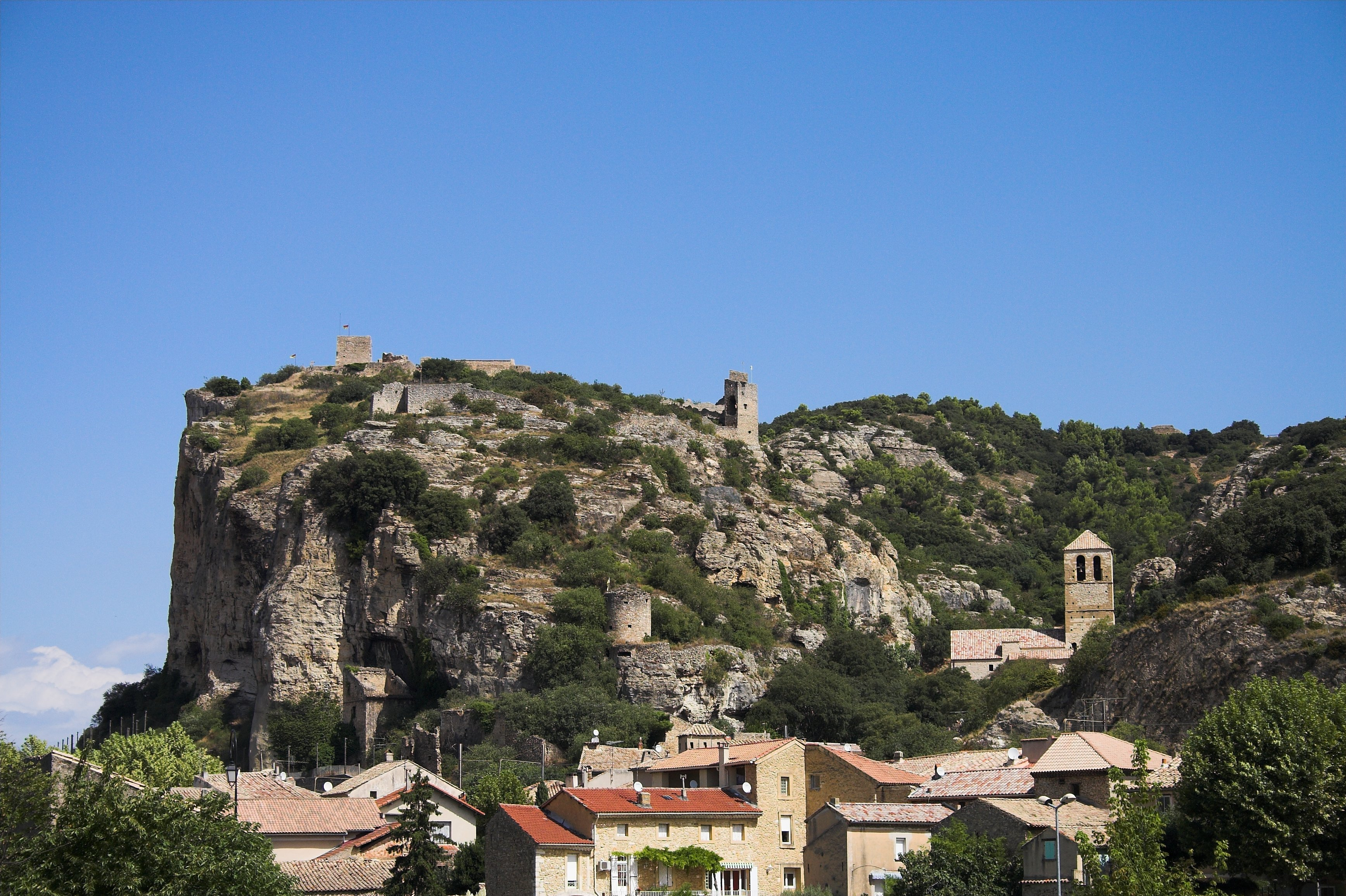 a fortress of Mornas (Mornas, France)